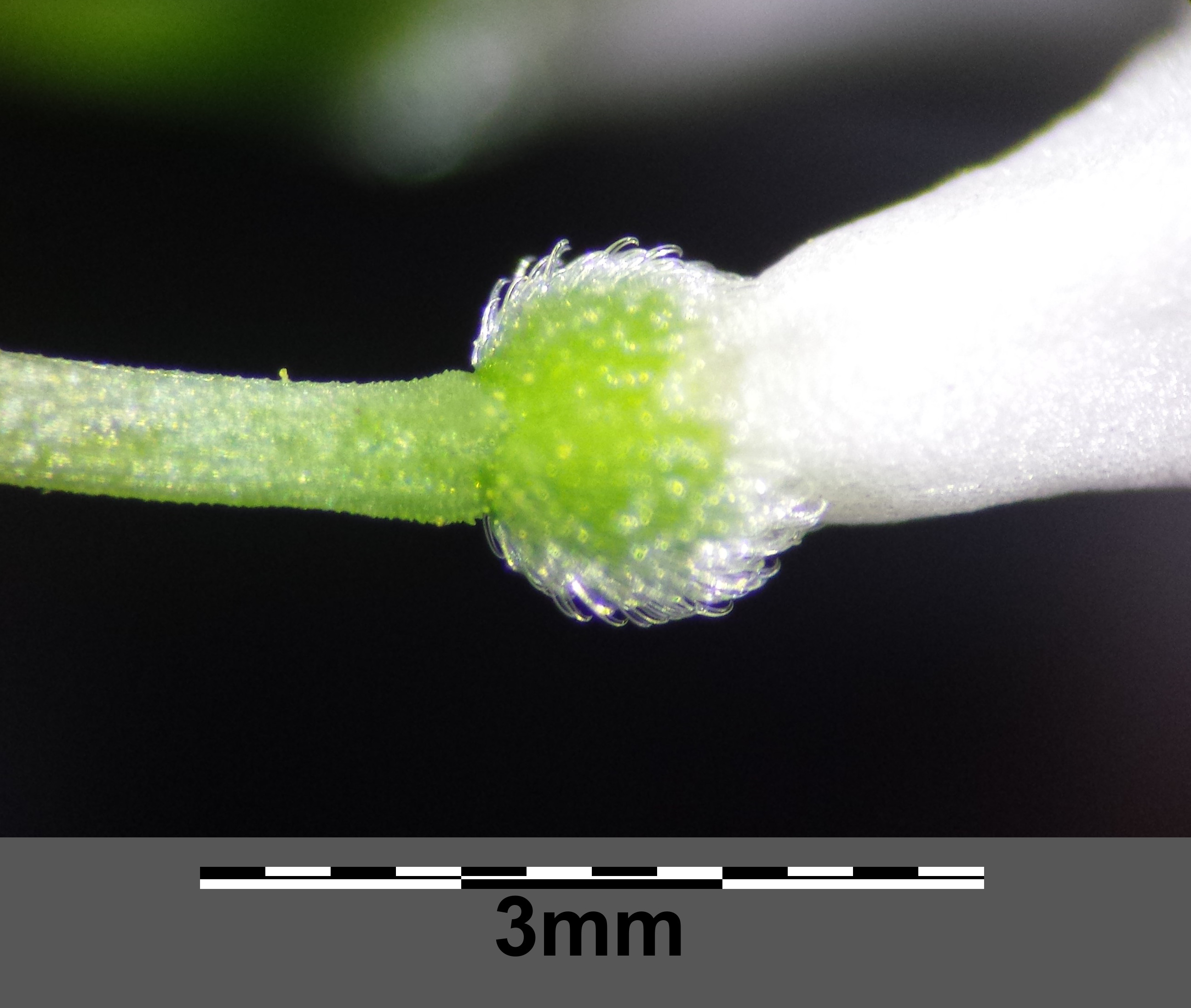 Ovary with hooked bristles Taxonym: Galium odoratum ss Fischer et al. EfÖLS 2008 ISBN 978-3-85474-187-9 Location: Rohrwald, district Korneuburg, Lower Austria - ca. 300 m a.s.l. Habitat: Carpinion betuli